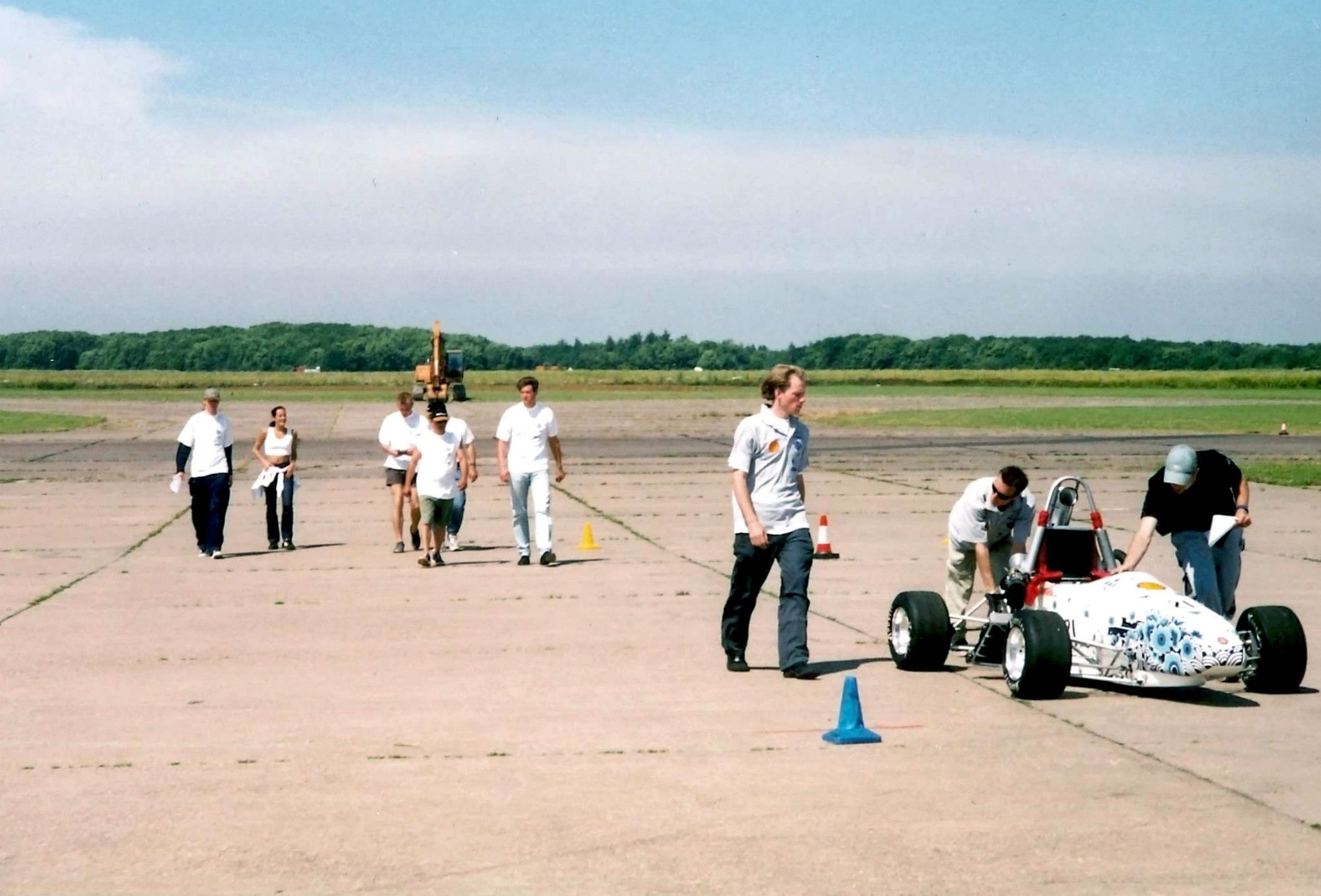 Prepping the DUT01